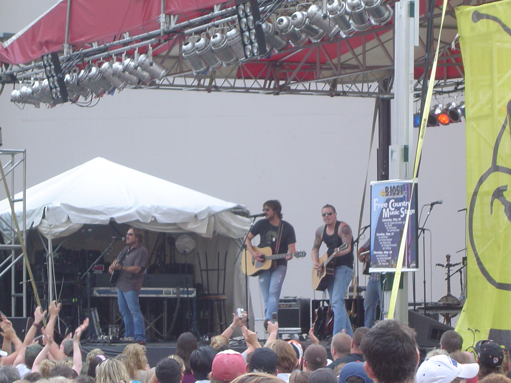 Eric Church and his band, 2007.